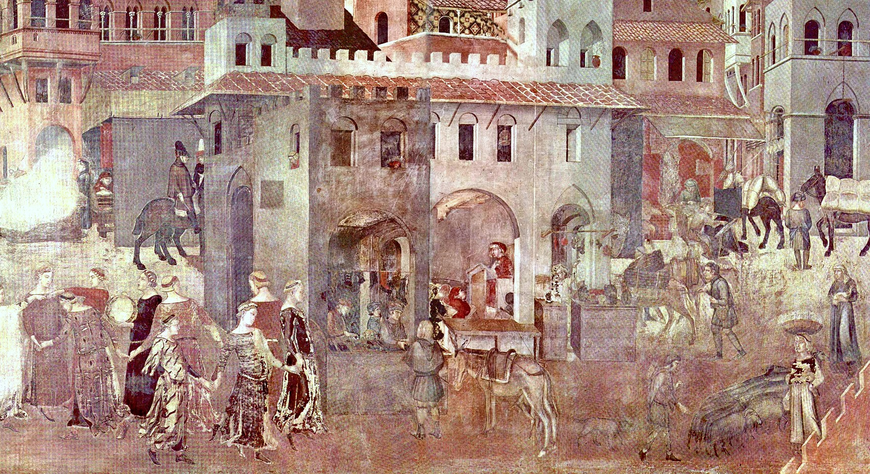 Ambrogio Lorenzetti, The Allegory of Good Government, Palazzo Publico, Siena. Detail, centre and right.